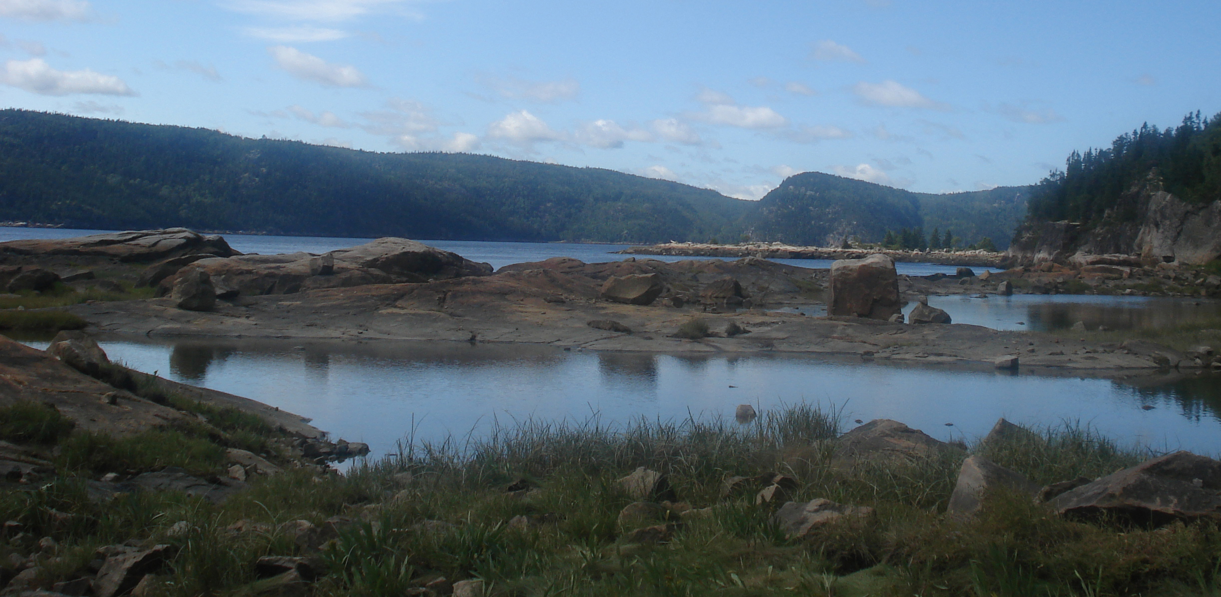 photo taken from a little bay in the Saguenay fjord in Quebec.